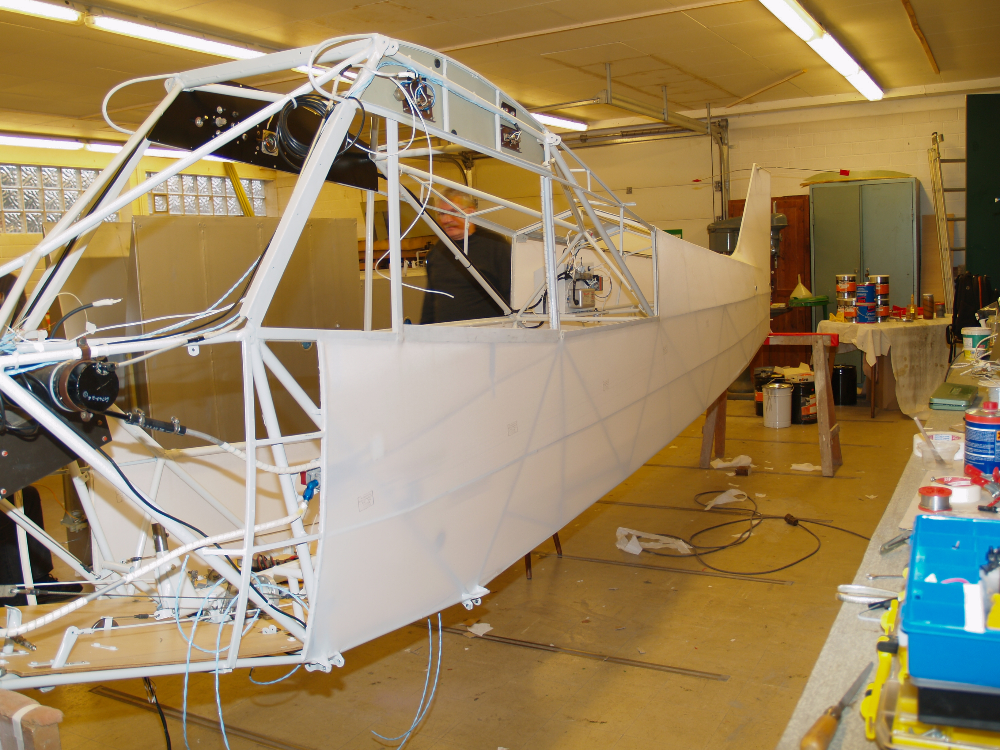 the Fuselage of a Piper PA-18 during a major overhaul. The covering is just tautenend.